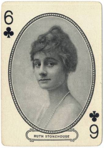 Ruth Stonehouse